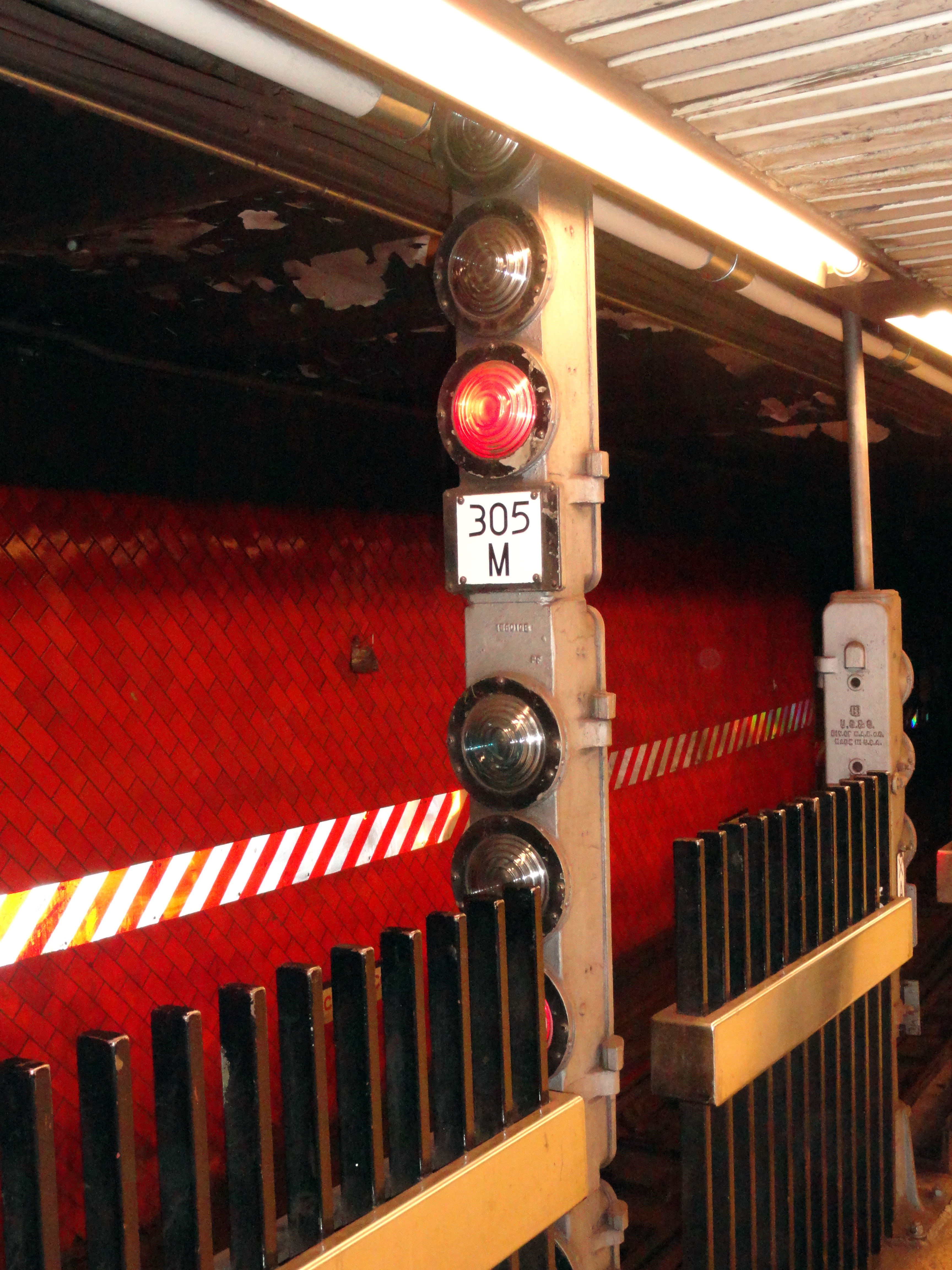 View of signal at Bowling Green station, uptown track, New York City Subway. Signal manufactured by Union Switch & Signal Co.